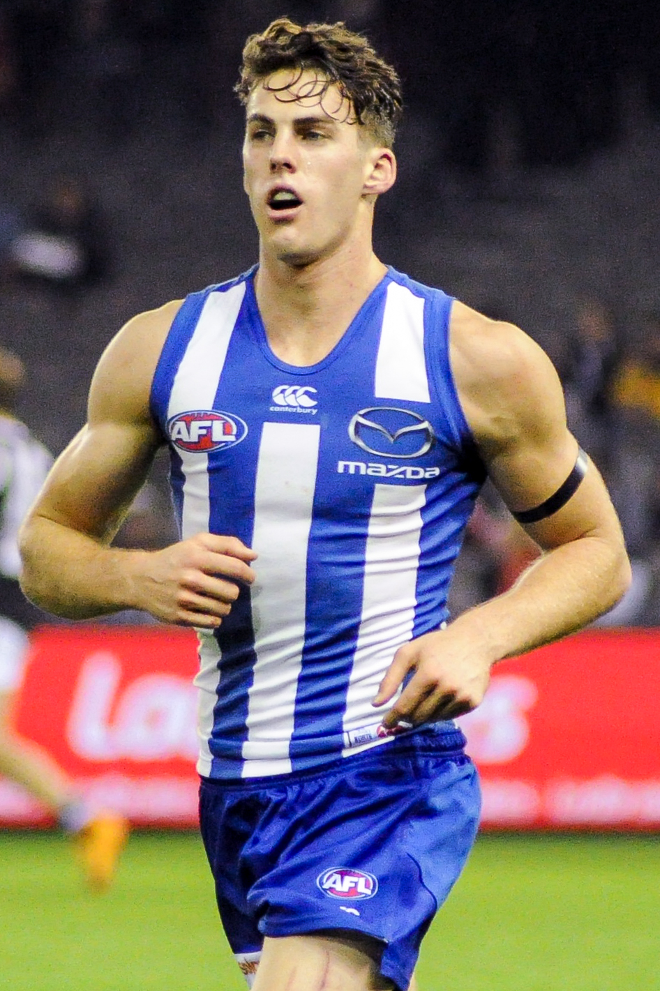 Declan Mountford during the AFL round thirteen match between North Melbourne and St Kilda on 16 June 2017 at Etihad Stadium in Melbourne, Victoria.